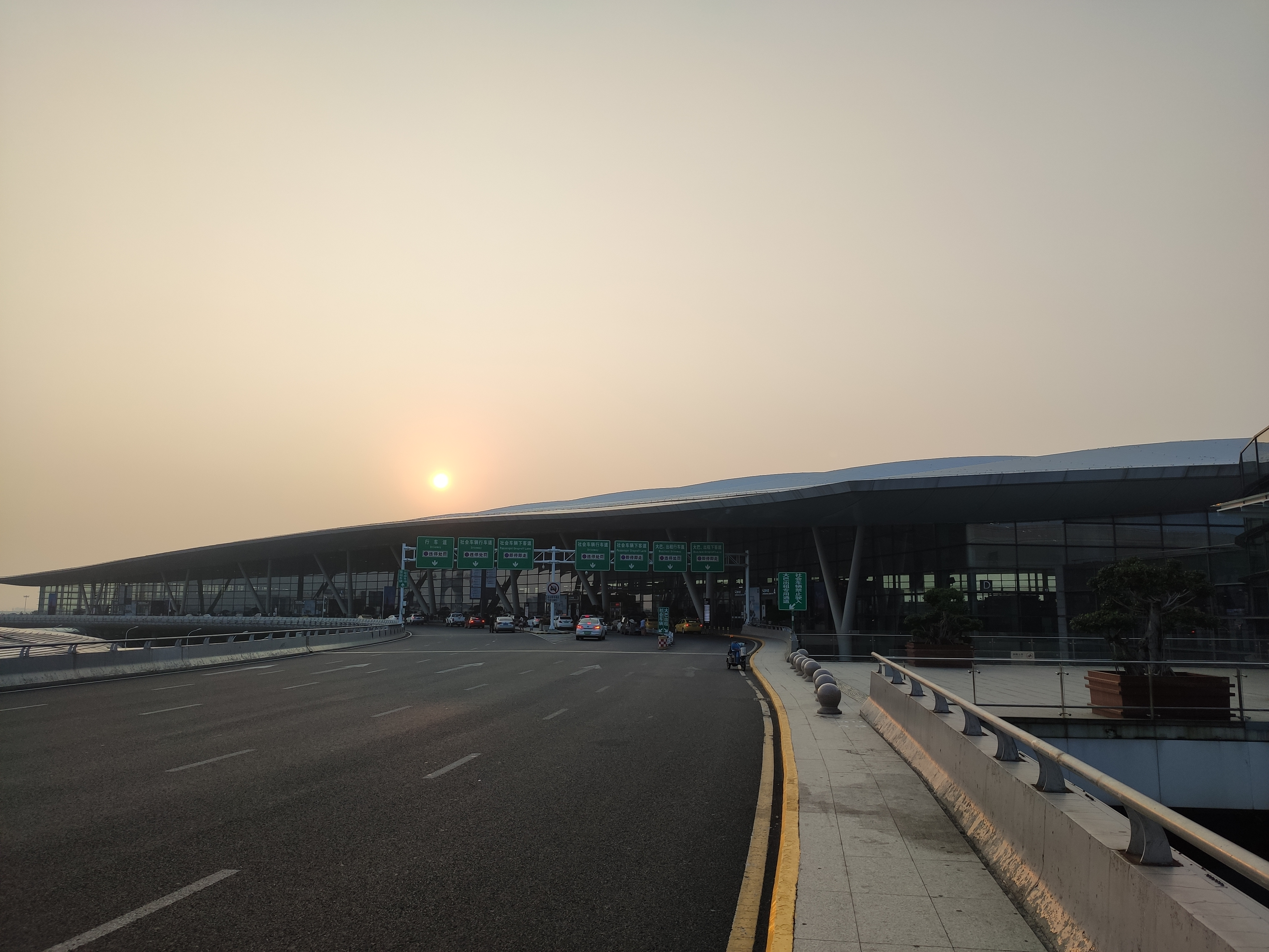 Nanjing Lukou Int'l Airport Terminal 2 in the morning